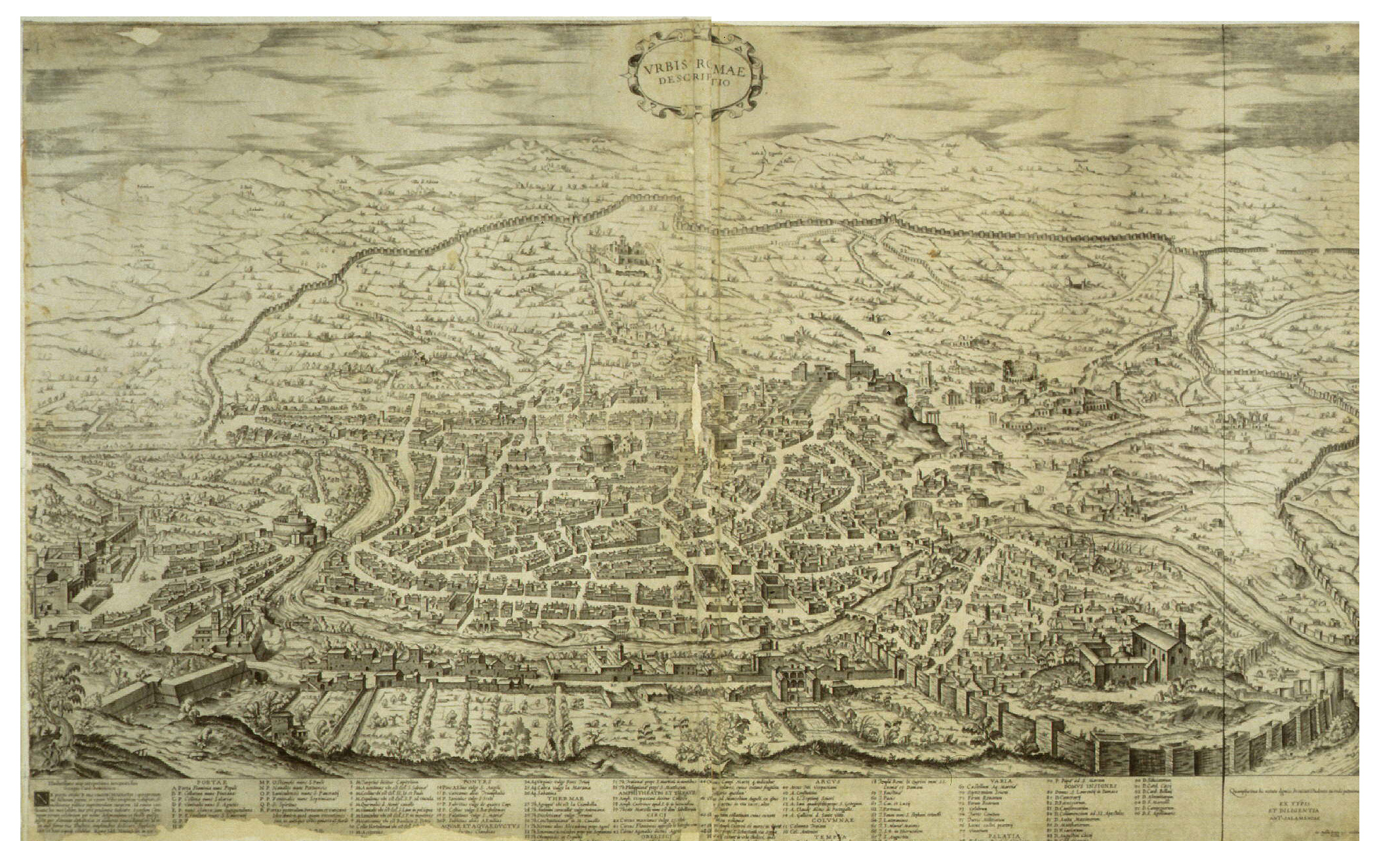 Map of Rome.